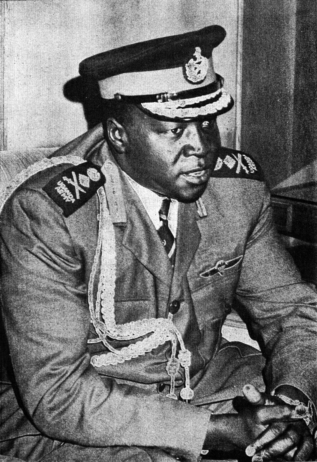 Idi Amin